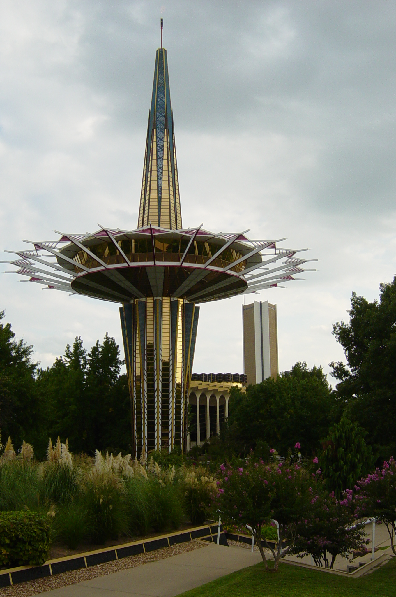 Photograph of the Prayer Tower on the campus of Oral Roberts Universityen in Tulsaen, Oklahomaen.